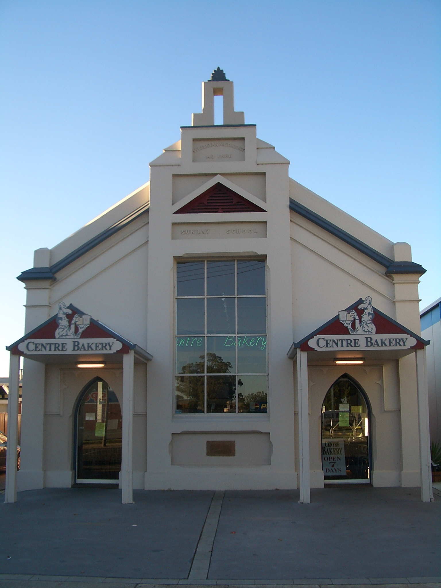 In the central section of Sale, Victoria